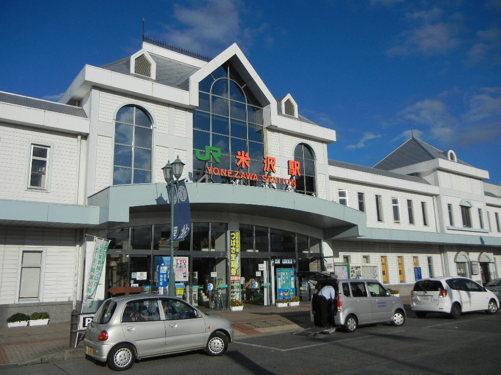 Yonezawa_Station. 東北の駅百選に選ばれた山形県米沢市の米沢駅。, Yonezawa.